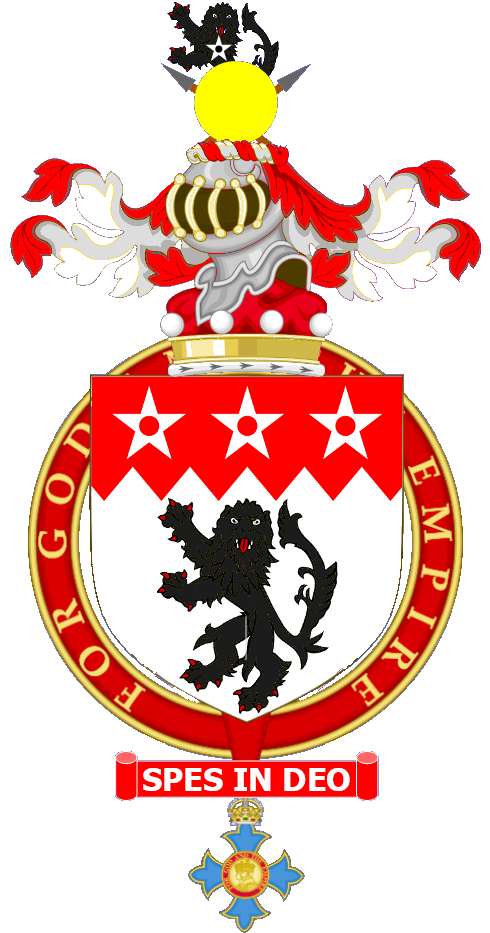 The armorial achievement of The Lord Piercy